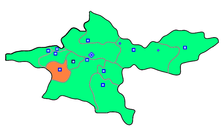 Robat-Karim county of the Tehran Province in Iran. Taken from: and edited by Mani Parsa.